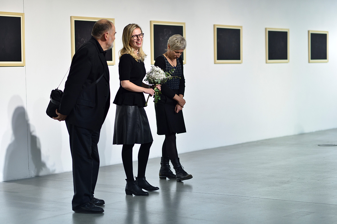 Author on the opening of the exhibition "Clean&Wrong", Museum of Contemporary Art, Zagreb, Croatia